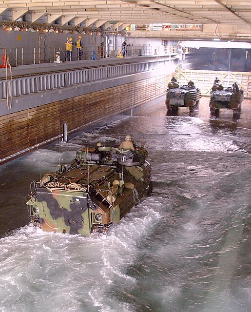 AAVs on USS Fort McHenry; Amphibious Assault Vehicle (AAVs) of the 31st Marine Expeditionary Unit (MEU) enter Fort McHenry (LSD 43)'s well deck. The AAVs, embarked in Juneau (LPD 10), were conducting well deck training for the Sailors and Marines of both ships, 9 March 2002.